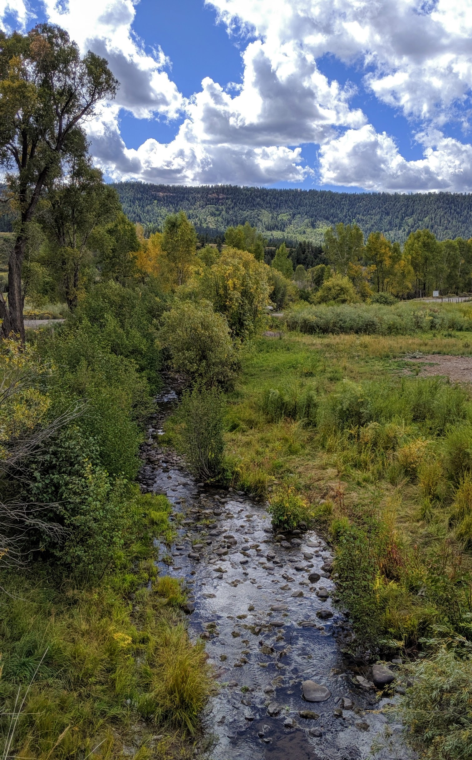 Little Navajo River after it crosses under US highway 84 near Chromo, Colorado